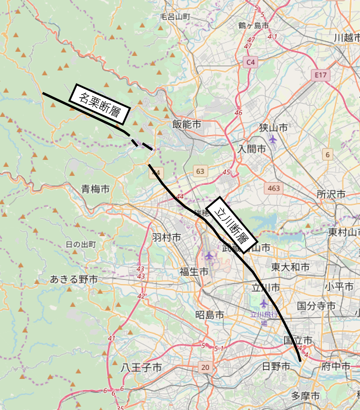 Map of Tachikawa Fault Group